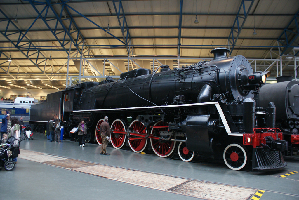 National Railway Museum. Taken 24th Jan 2009. Name: Chinese Government Railways Class KF7 No 607 Class: 4-8-4 Built: 1935 Designer: Cantlie Weight: Locomotive 115 and tender 193 tons Cylinders: 3 19" x 26" Driving wheel Diameter: 5' 8 7/8" Boiler Pressure: 220.5 lb